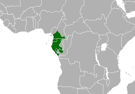 Mandrill (Mandrillus sphinx) range